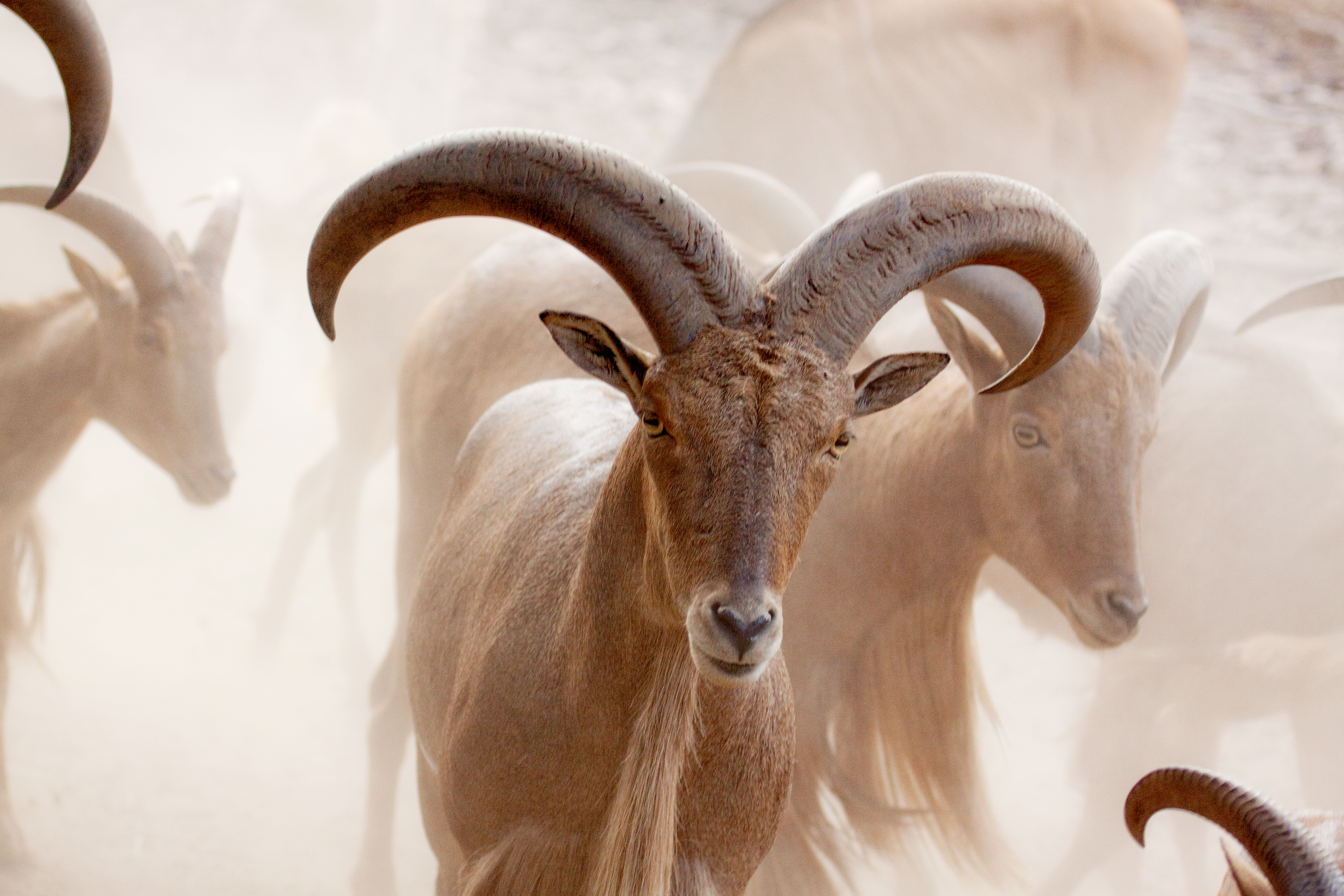 Mouflon - Wild Sheep - Ammotragus lervia, Photo taken at Badoca Safari Park